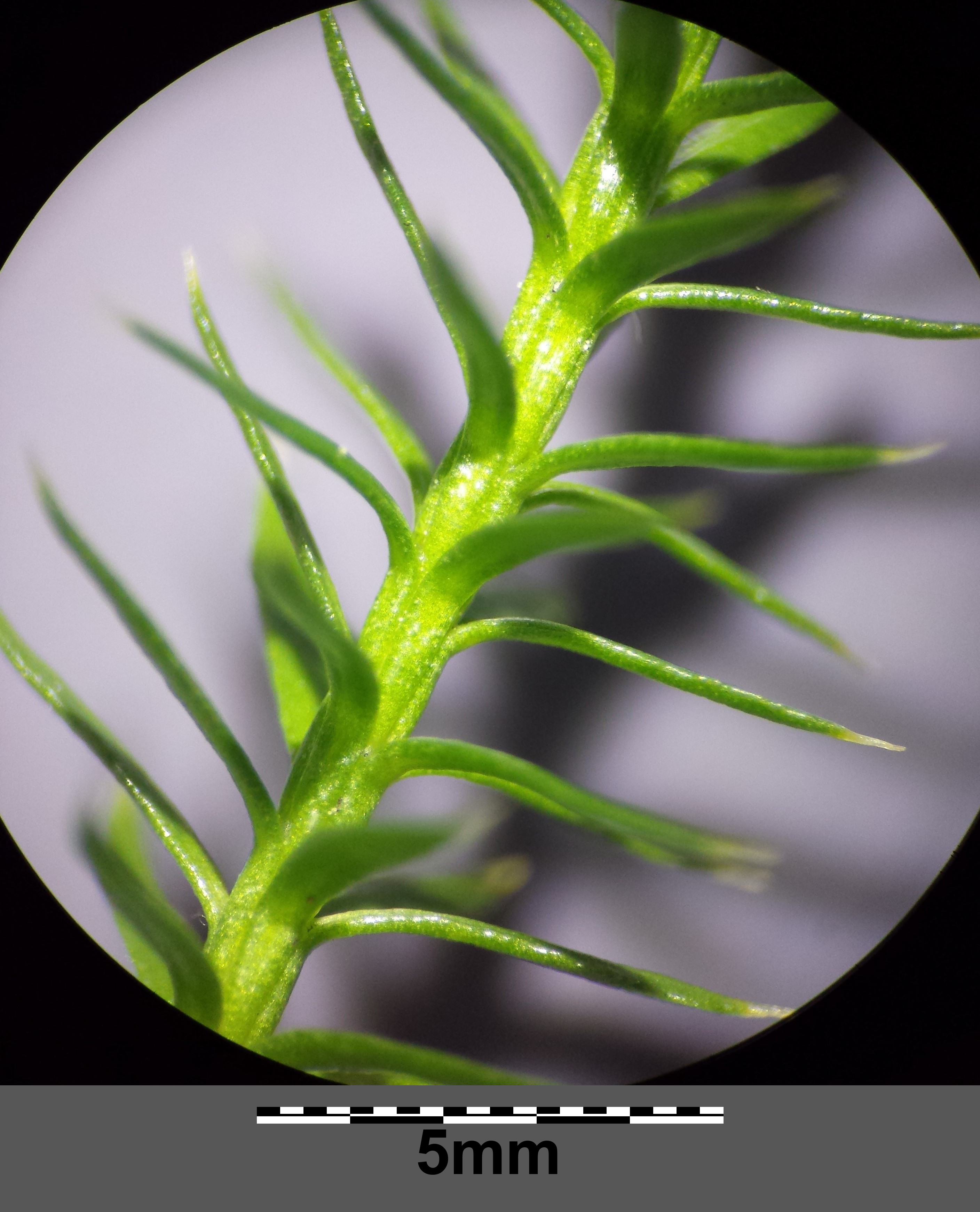 Shoot with decurrent leaves Taxonym: Lycopodium annotinum ss Fischer et al. EfÖLS 2008 ISBN 978-3-85474-187-9 Location: next to Bad Mitterndorf, district Liezen, Styria, Austria - ca. 800 m a.s.l. Habitat: cool wood